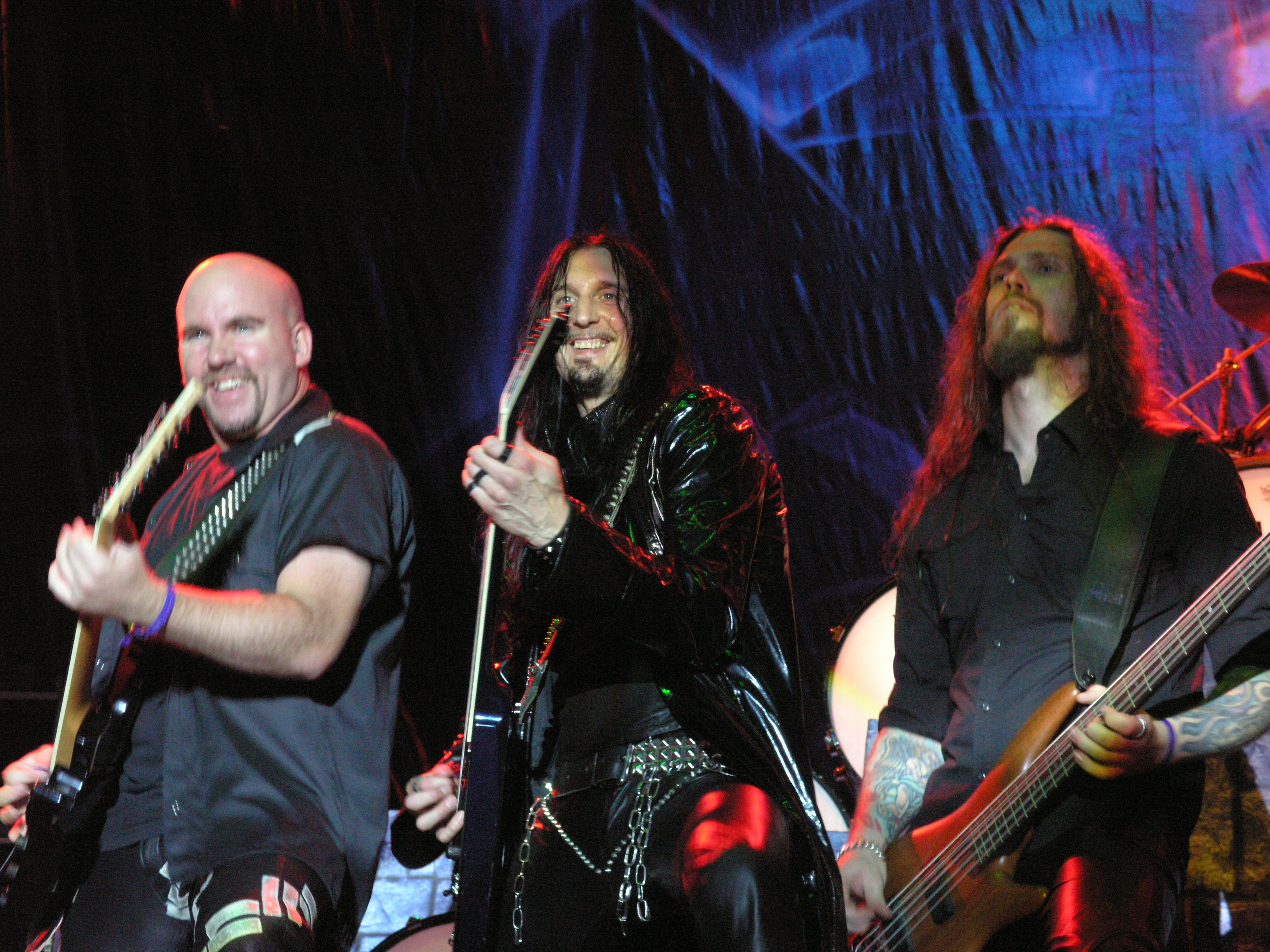 Music band Hammerfall during Masters of Rock 2007 festival